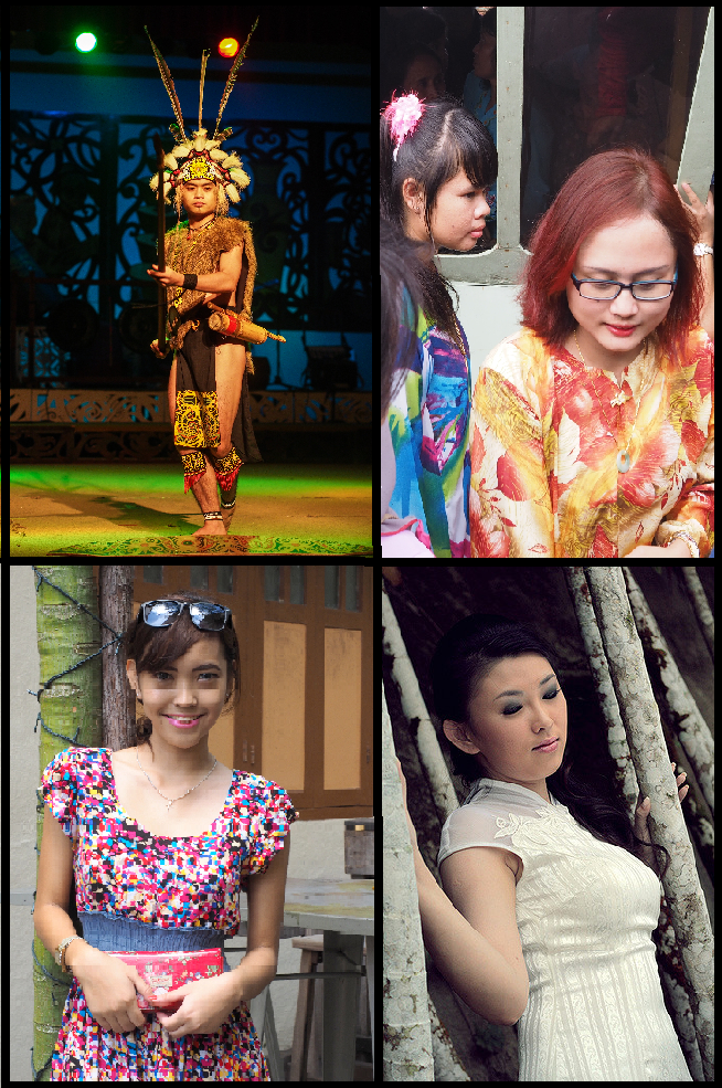 Major ethnic groups in Sarawak. Clockwise from top right: 1. Melanau girls with the traditional Baju Kurung 2. Sarawak Chinese woman in her traditional dress of Cheongsam 3. A Bidayuh girl 4. An Iban warrior in his traditional dress.